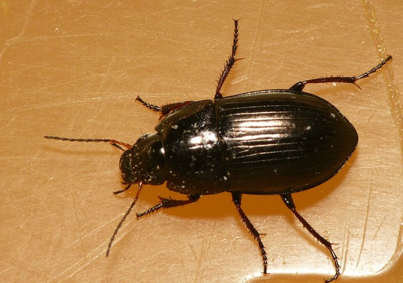 Amara similata, location: The Netherlands - Rhenen - Blauwe Kamer